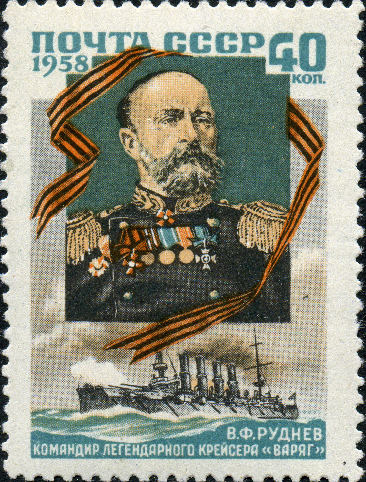 USSR stamp, V. F. Rudnev, commanding officer of Varyag Cruiser, 1958, 40 k.